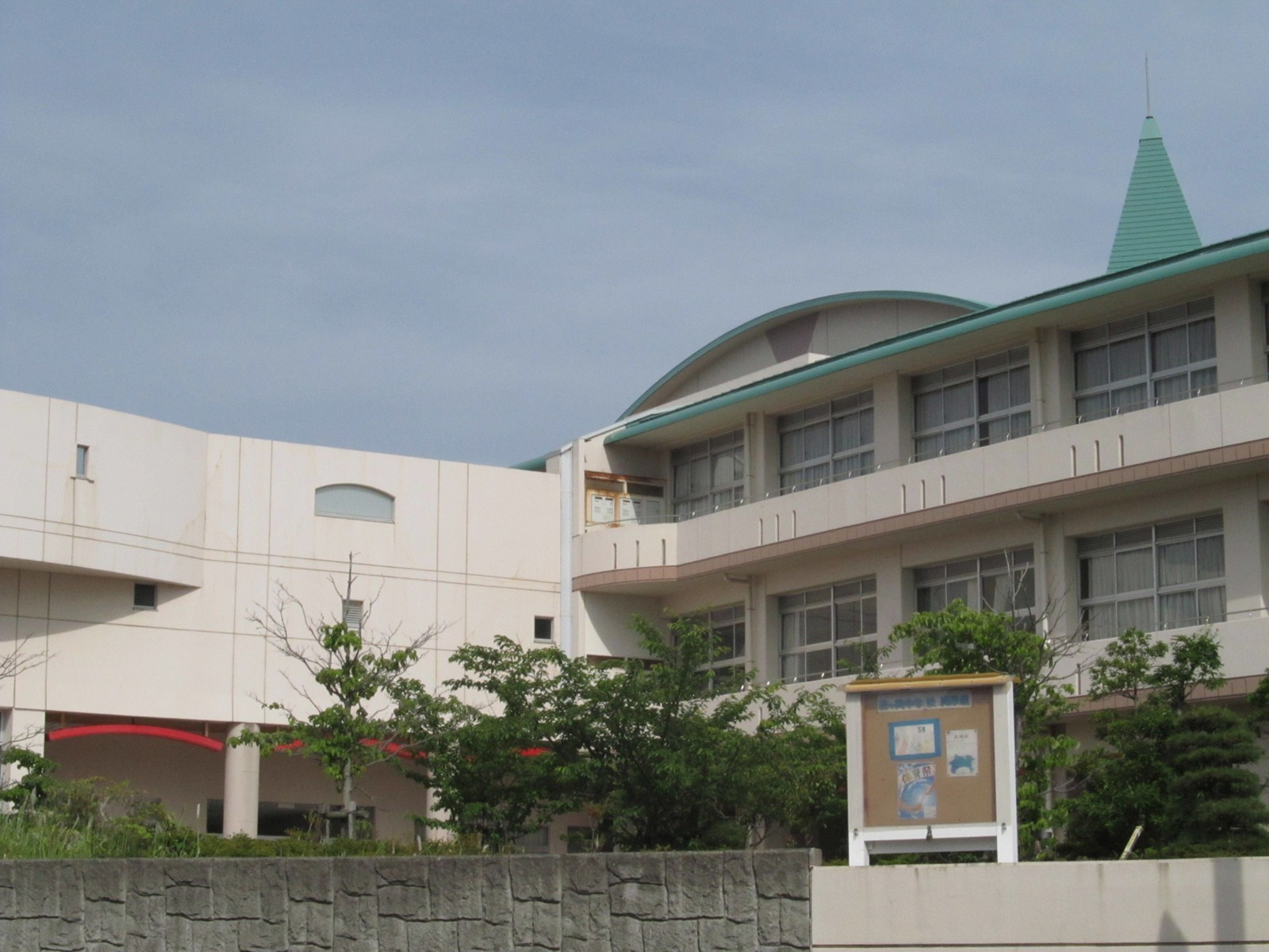 Fujisawa City Fujigaoka Junior High School in Fujisawa City, Kanagawa Prefecture, Japan